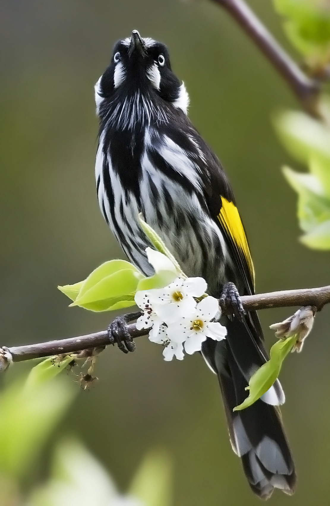 A New Holland Honeyeater (Phylidonyris novaehollandiae) at the University of Tasmania, Australia Camera data Camera Canon EOS 400D Lens Canon EF 400mm f5.6L Flash Fill, Frensel Extender Focal length 400 mm Aperture f/5.6 Exposure time 1/1000 s Sensivity ISO 1600